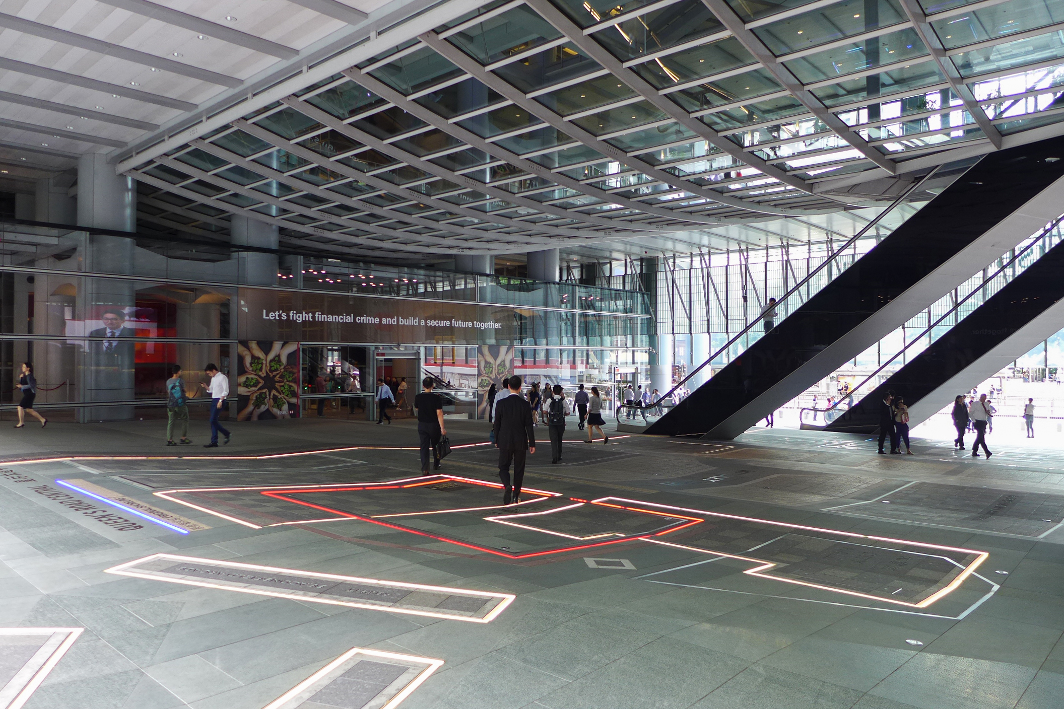 HSBC Main Building GF Plaza